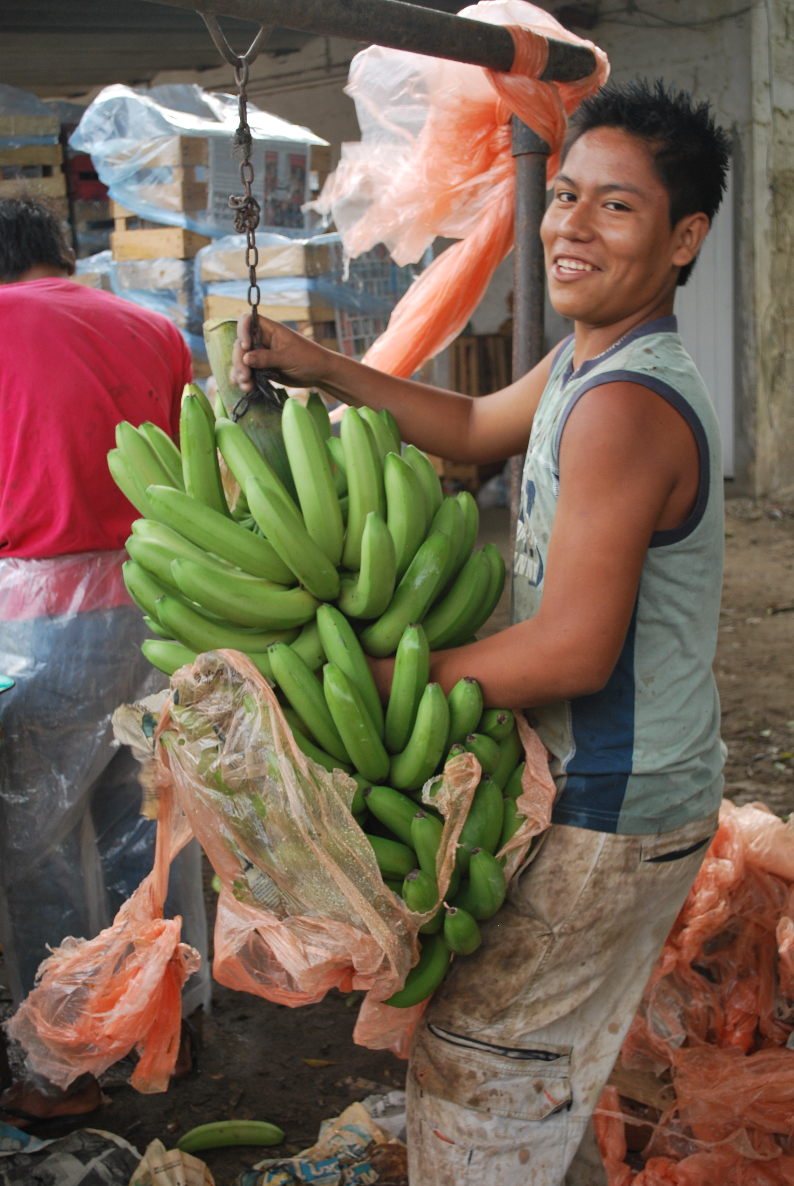 Packing bananas at the Rancho La Duena in Paso de Telaya, San Rafael, Veracruz